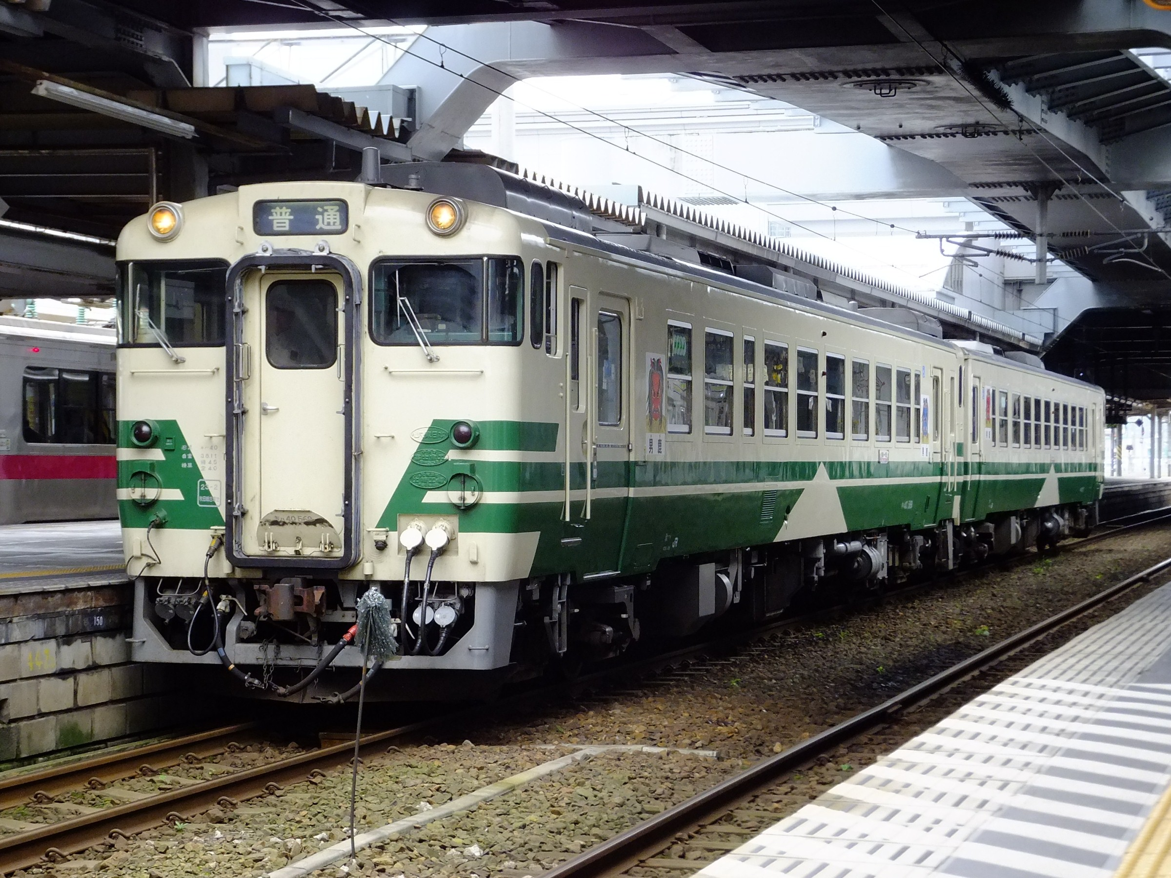 JR East KiHa 40 series DMU car KiHa 40 569 in Oga Line livery at Akita Station